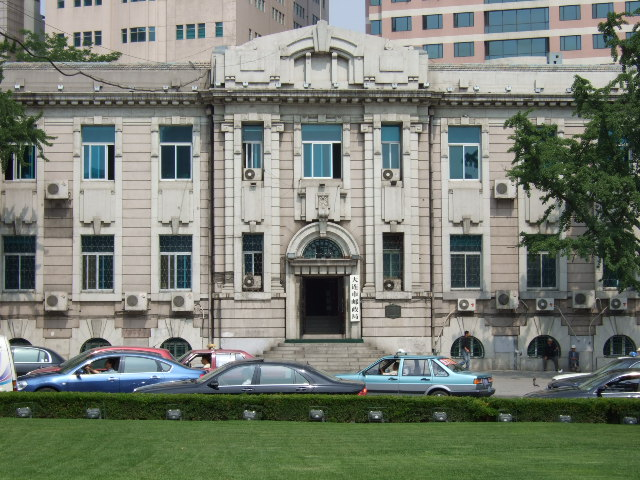 Former Kwantung Bureau of Communications